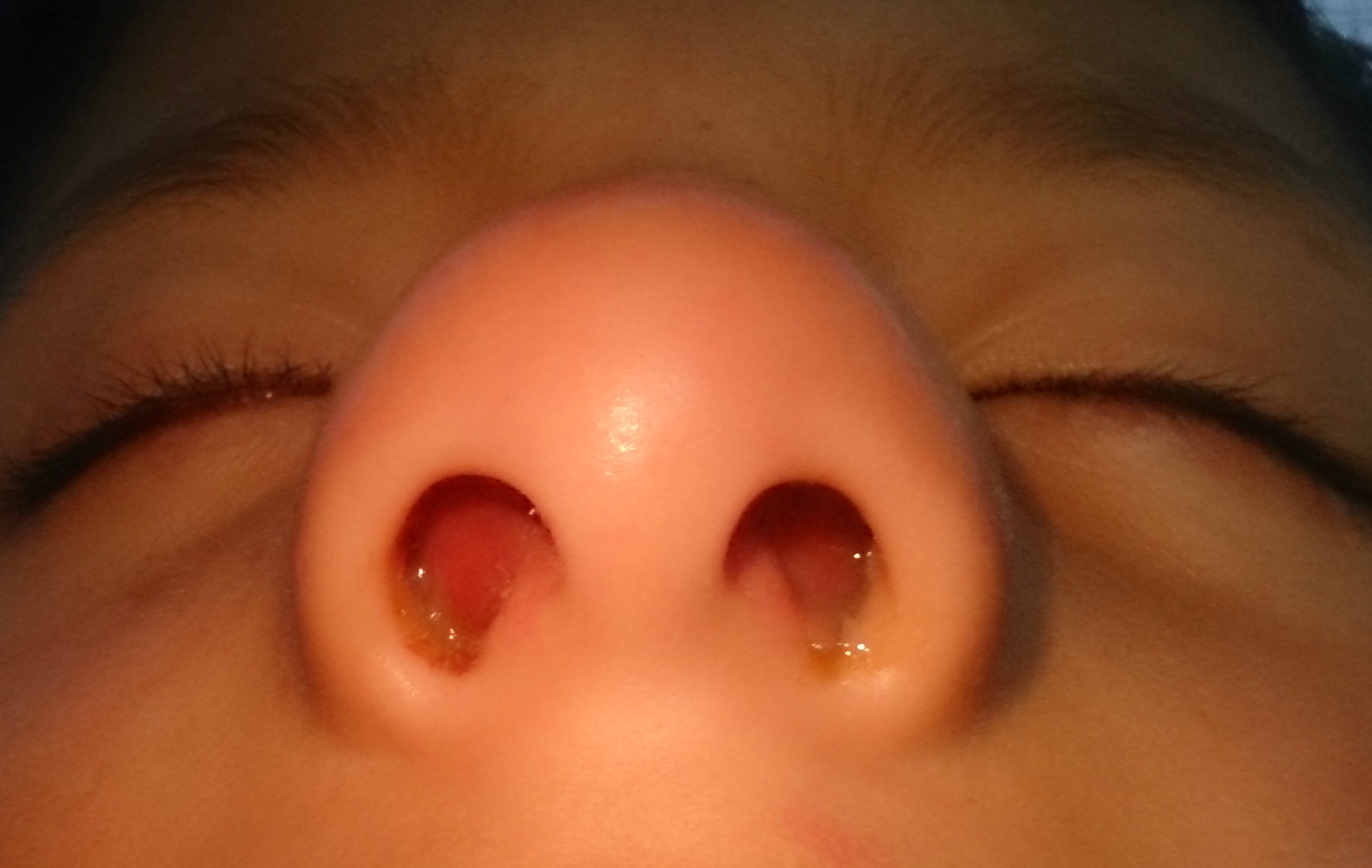 A 8 years old boy arrived to the emergency departament with increased volume of his nose in the last 8 days after sustaining a facial trauma with a tree. He had epistaxis twice and bilateral nasal obstruction. At external examination he had increased volume in the distal portion of the nasal dorsum with mild erythema. Anterior rhinoscopy (see photo) shows swelling arising from the nasal septum bilateraly blocking the nostrils, with little mucus. Nasal septal hematoma was diagnosed.